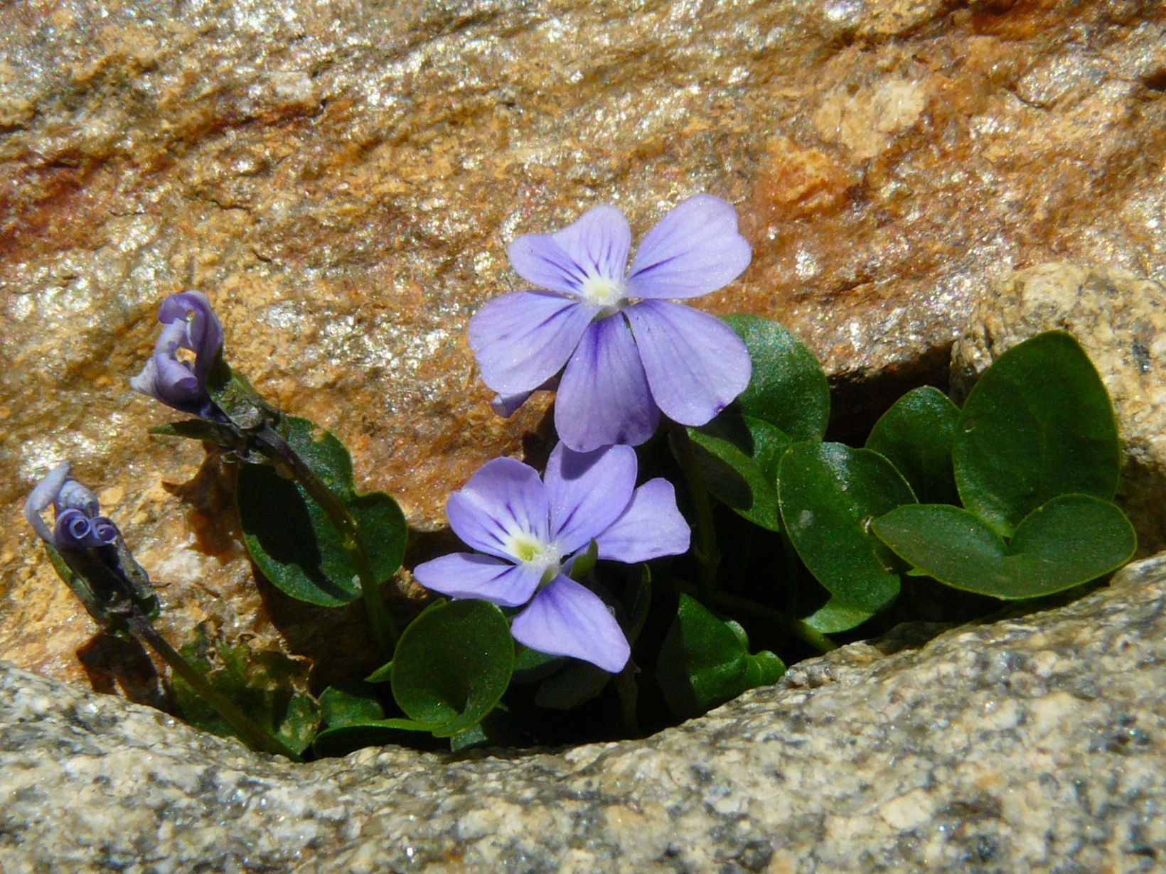 Viola nummulariifolia at a height of 2700 m NN on the eastern slope of the Testa di Malinvern in the Parco Naturale delle Alpi Marittime